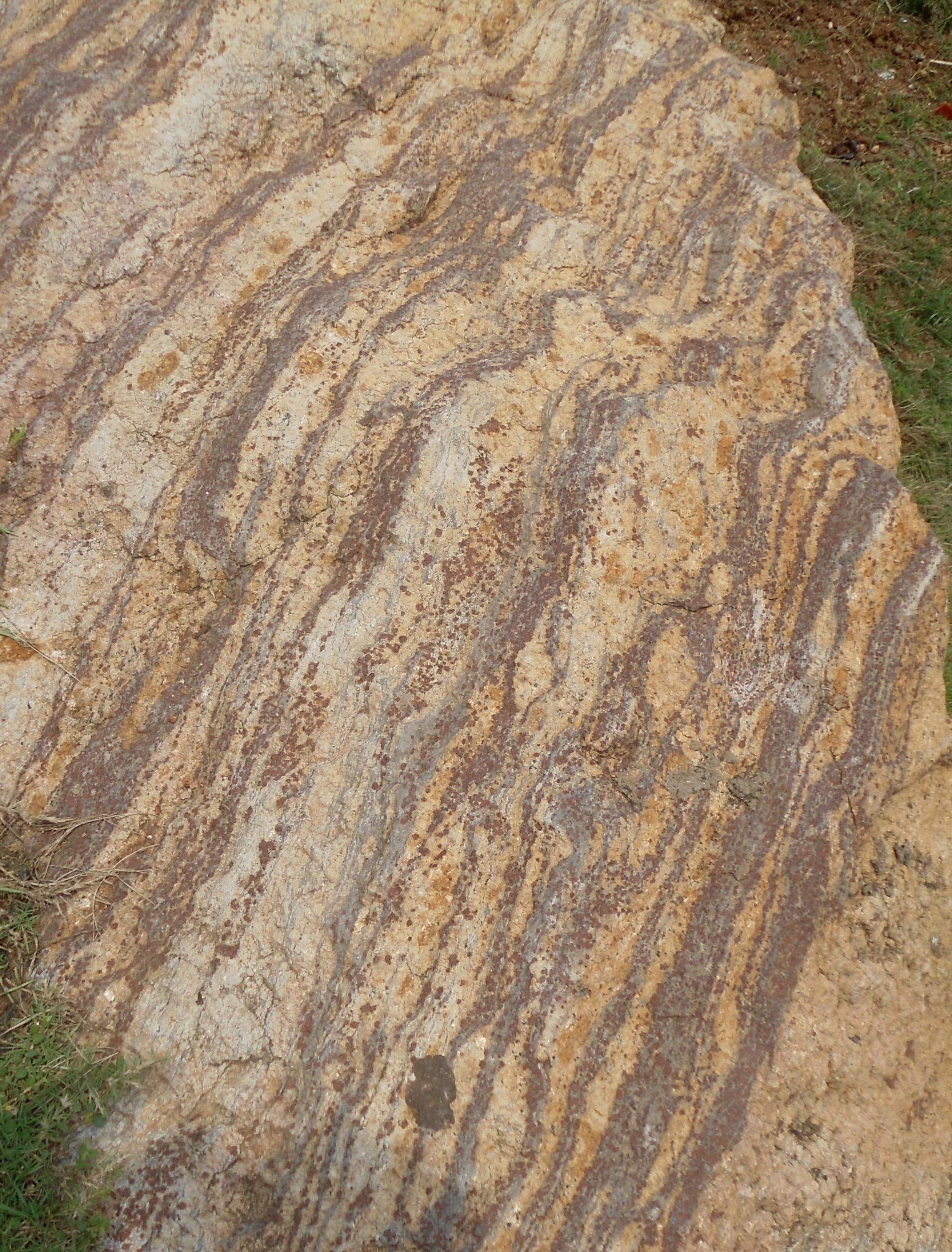 Khondalite rocks (Eastern Ghats) at Tenneti park beach in Visakhapatnam